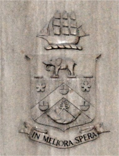 One of the crests in the Banking Hall of the Old Mutual Building, Darling Street, Cape Town